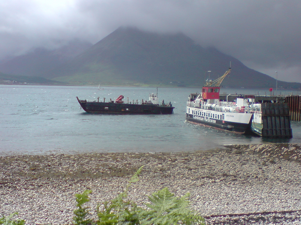 A small transport ferry moves off the slip to make way for our ferry, MV Loch Striven.